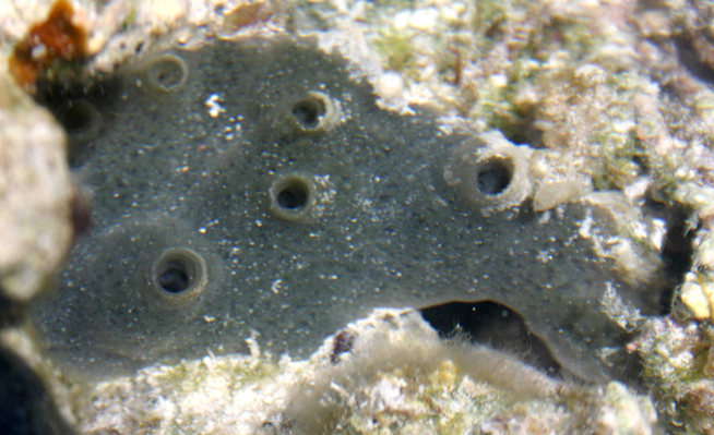 Adult animal of Amphimedon queenslandica